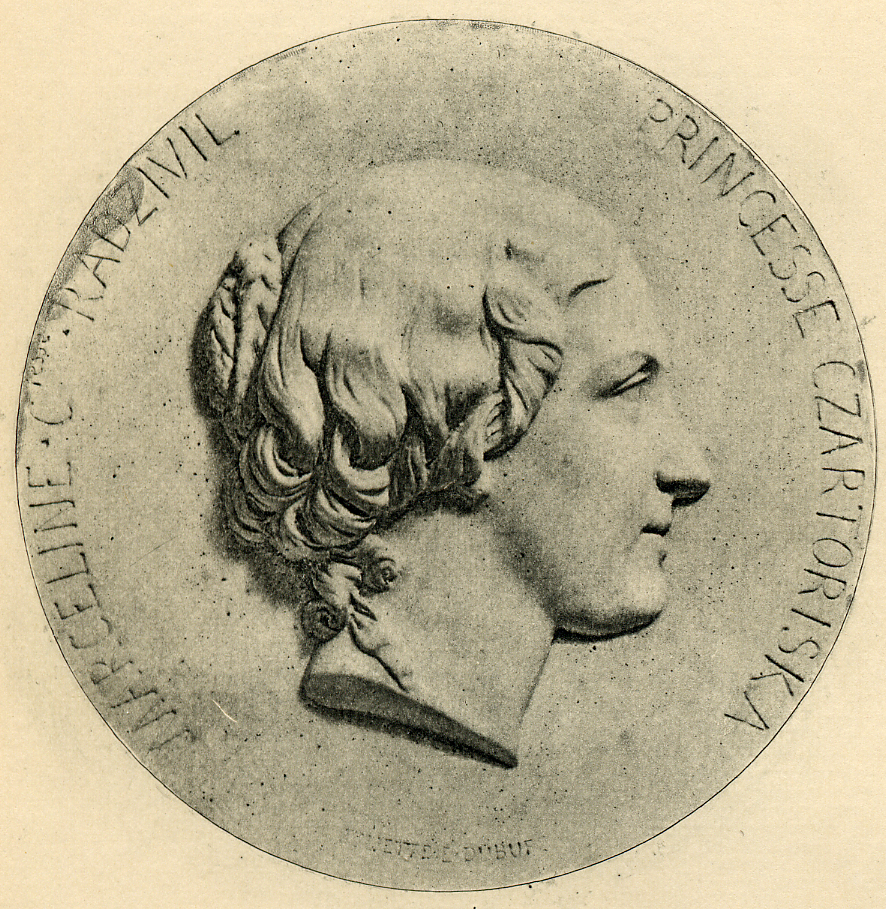 Marceline Czartoryska by Juliette Dubufe (d. 1883).